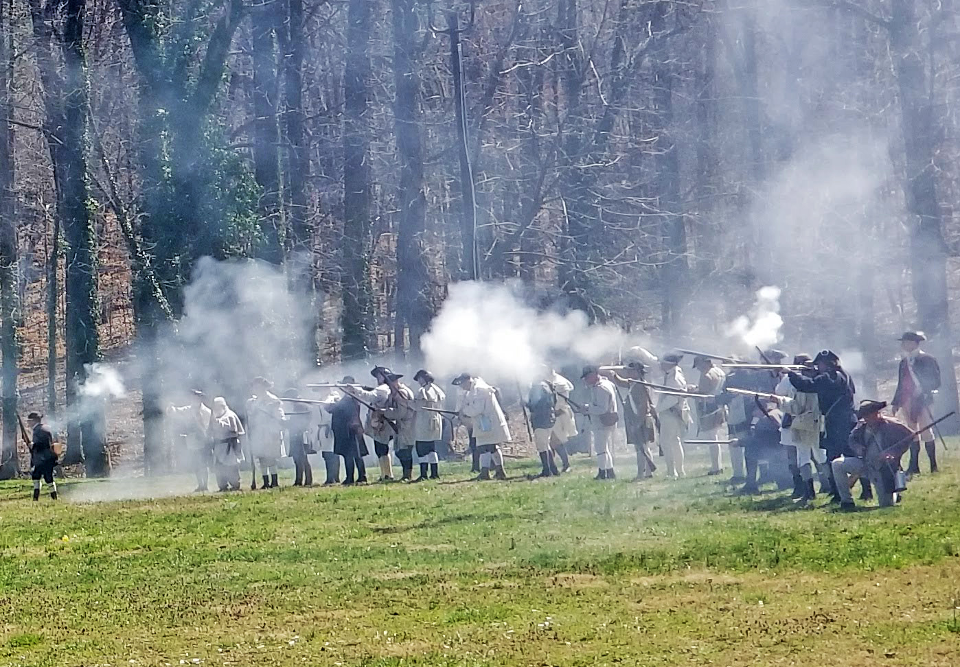 2019 reenactment of the Battle of Guilford Courthouse, which was fought on March 15, 1781